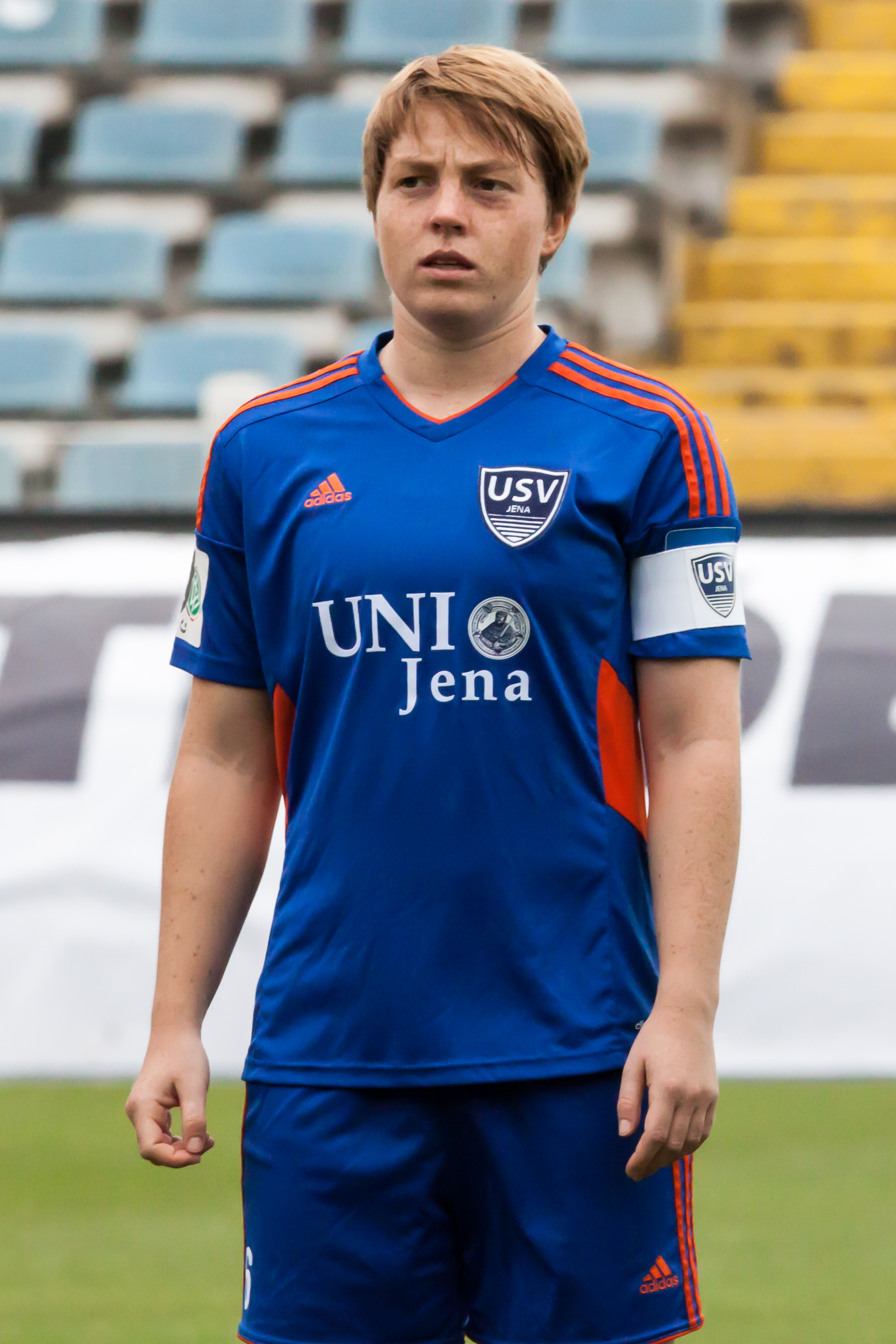 German Women Bundesliga soccer game: FF USV Jena vs. TSG 1899 Hoffenheim, 2014-10-11, at Ernst-Abbe-Sportfeld Jena.